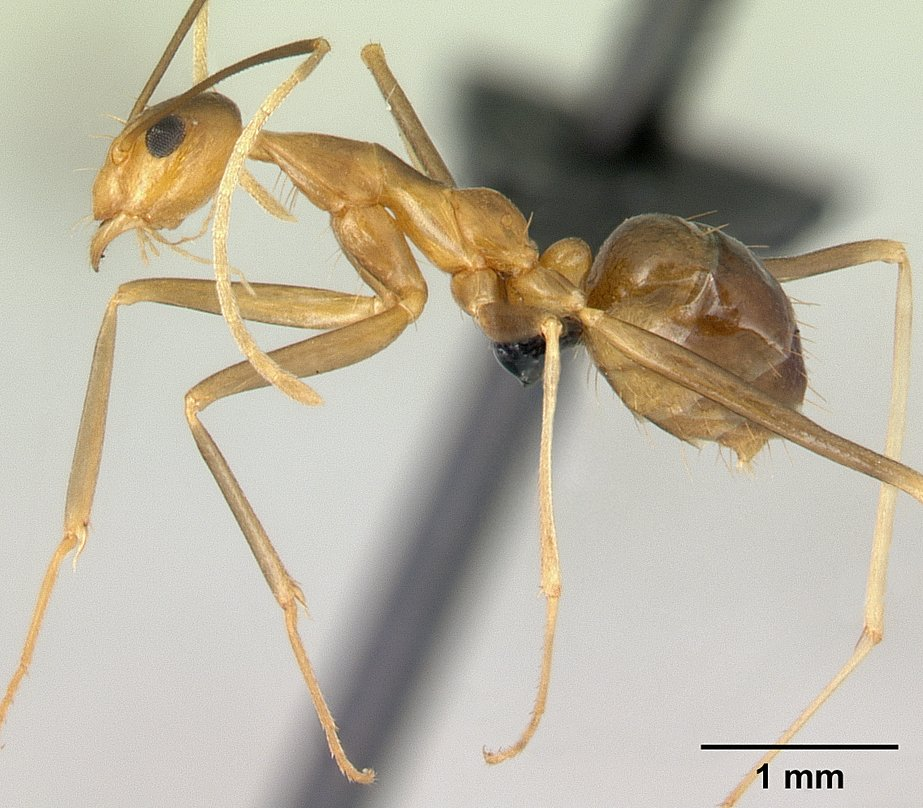 Profile view of ant Anoplolepis gracilipes specimen casent0125111.